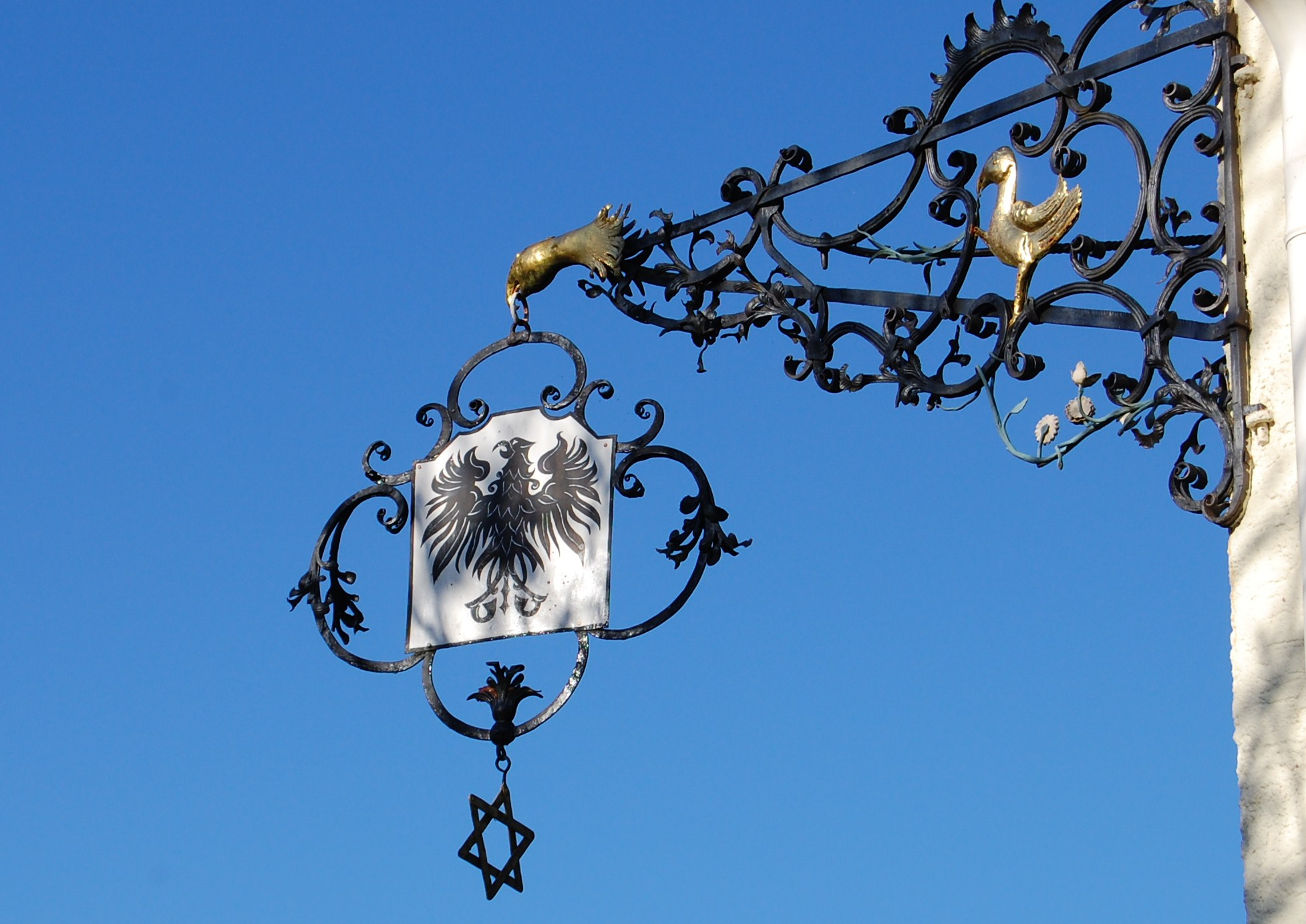 Inn sign of guesthouse "Gasthaus zum Adler" in Bad Kissingen-Hausen (Bavaria)